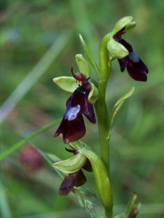 Fly orchis in Belgium. Approximate co-ordinates: plant located within 3 km from Nismes